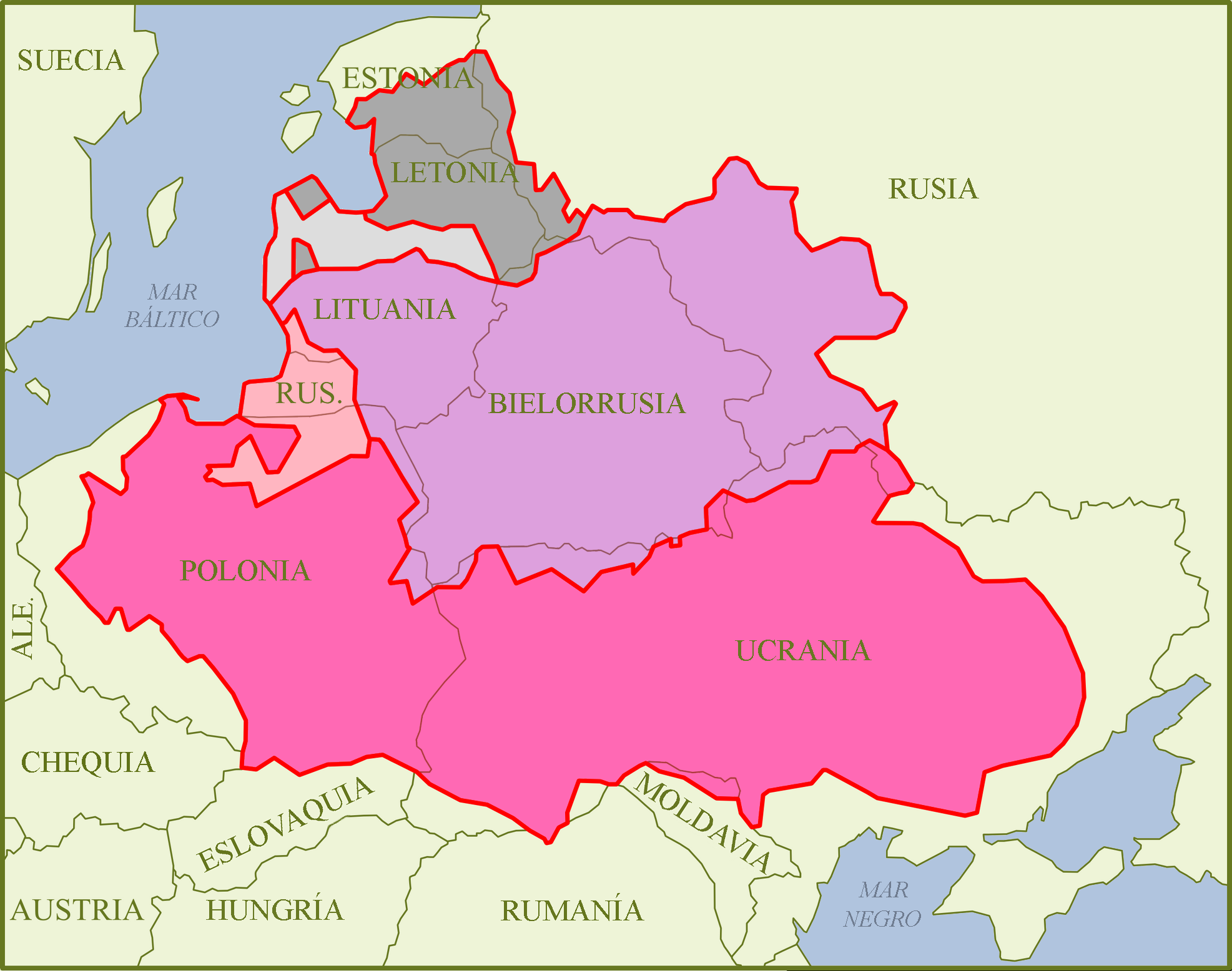 Polish–Lithuanian Commonwealth (1619) LEGEND